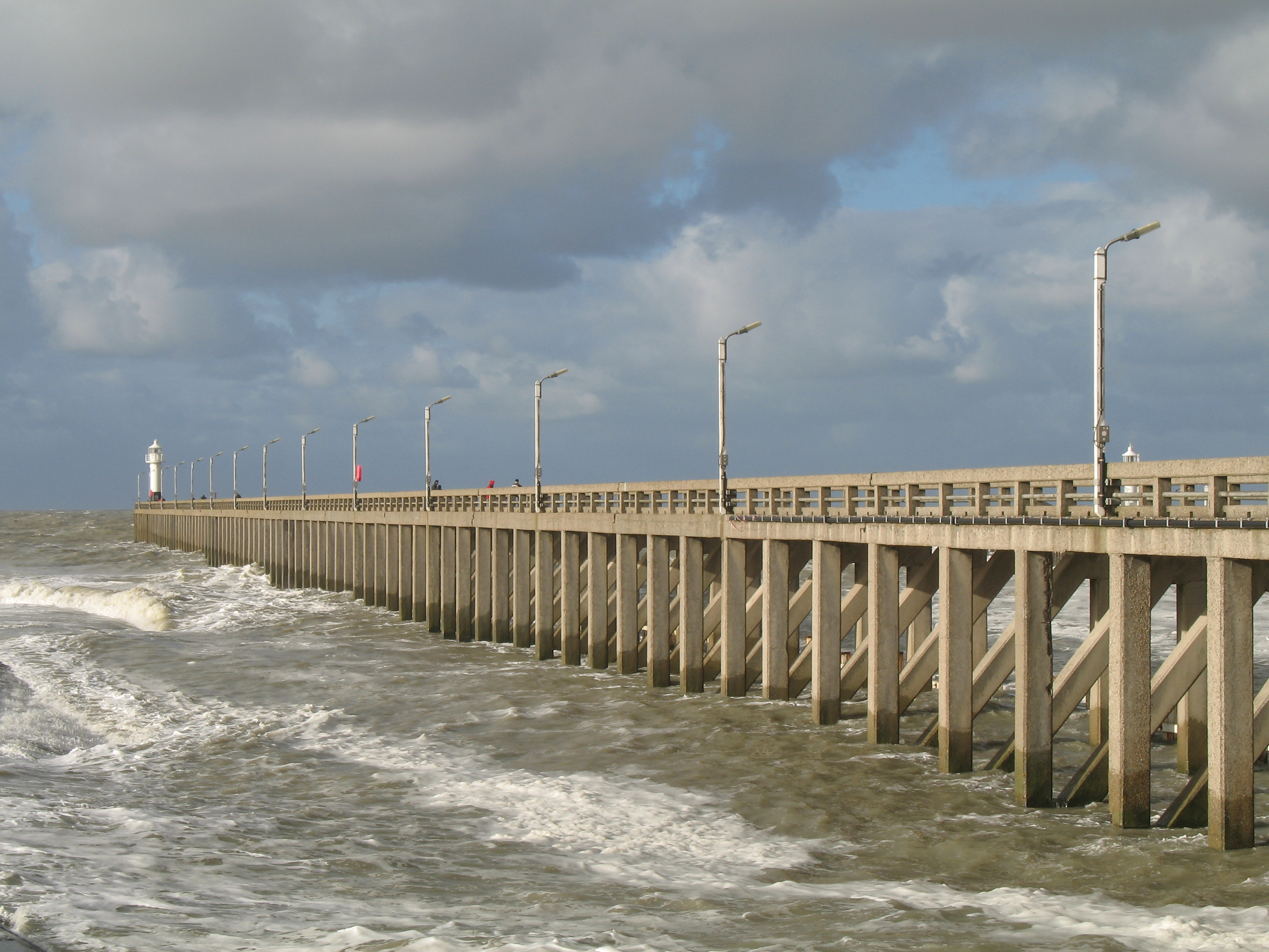 Blankenberge (province of West Flanders, Belgium): the western jetty